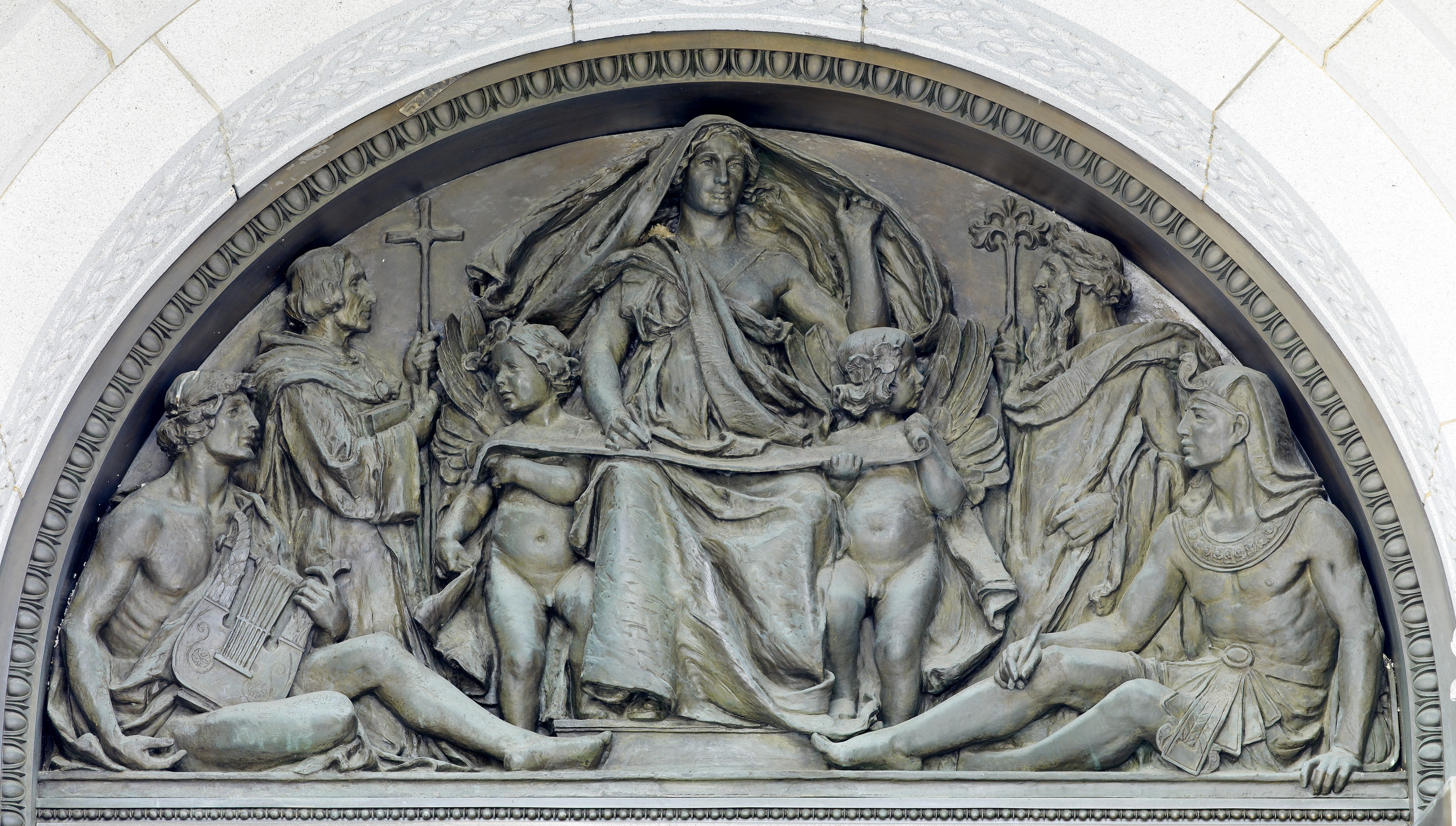 Exterior view. Bronze tympanum, by Olin L. Warner, representing Writing above main entrance doors. Library of Congress Thomas Jefferson Building, Washington, D.C. Cropped from the Library of Congress digital version using the GIMP.